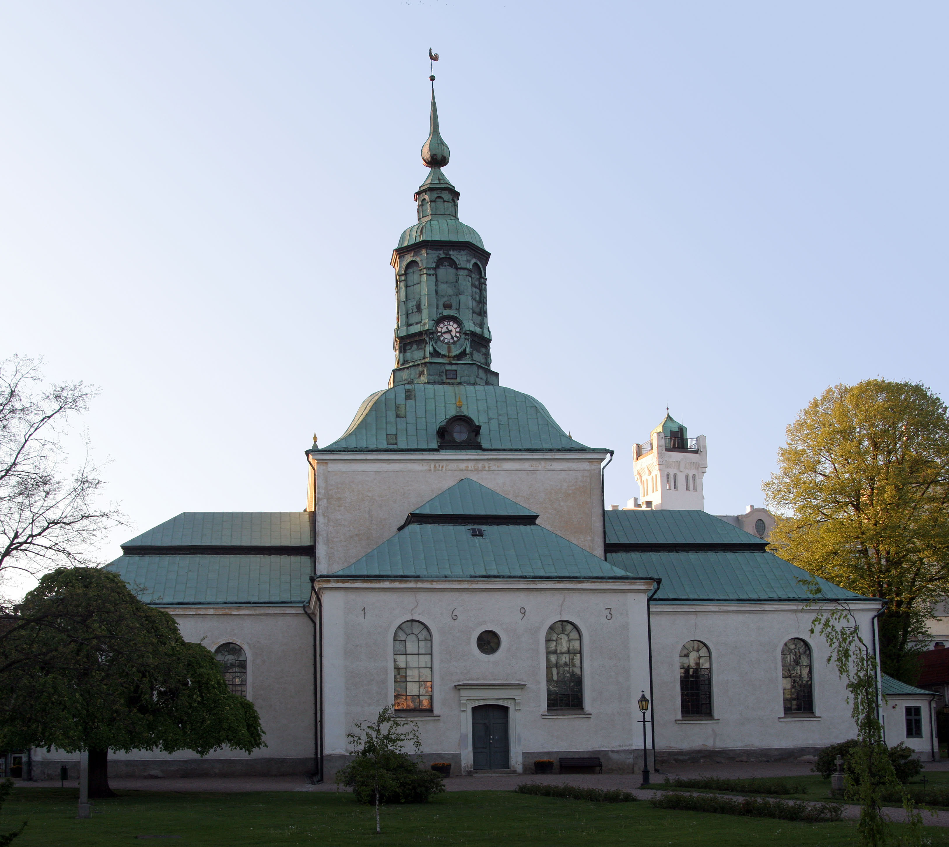 Carl Gustafs kyrka in Karlshamn, Sweden. The image has been assembled from two photos to allow the full building to appear in the picture despite the lack of a wide-angle lens at the time the picture was taken.